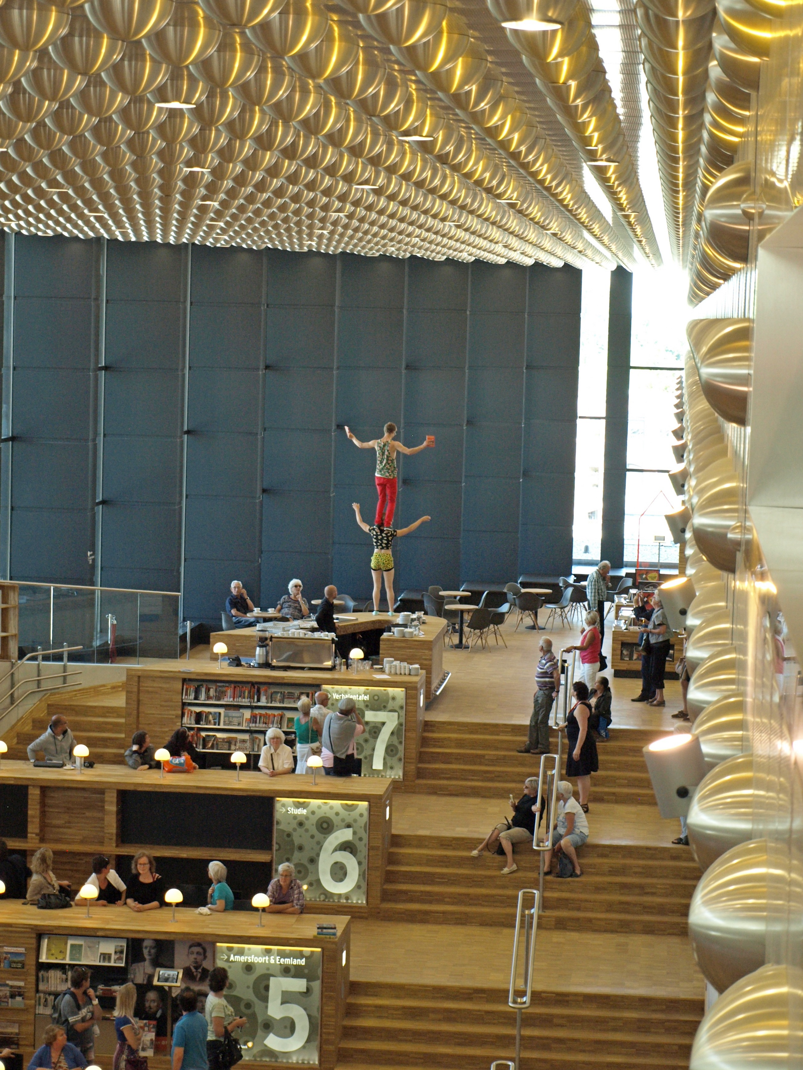 Eemhuis Amersfoort - artists at opening event